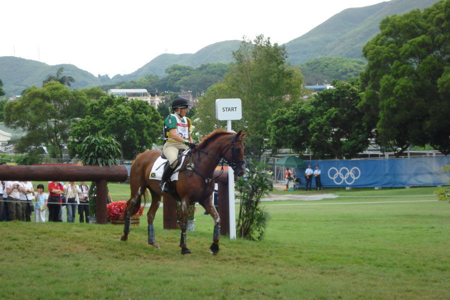 Beijing 2008 Olympic Game - Equestrian Event - Cross-Country Test of the Eventing Competition, held on The Olympic Equestrian Venue (Beas River) on 2008.8.13 - Samantha Albert (Jamaica)